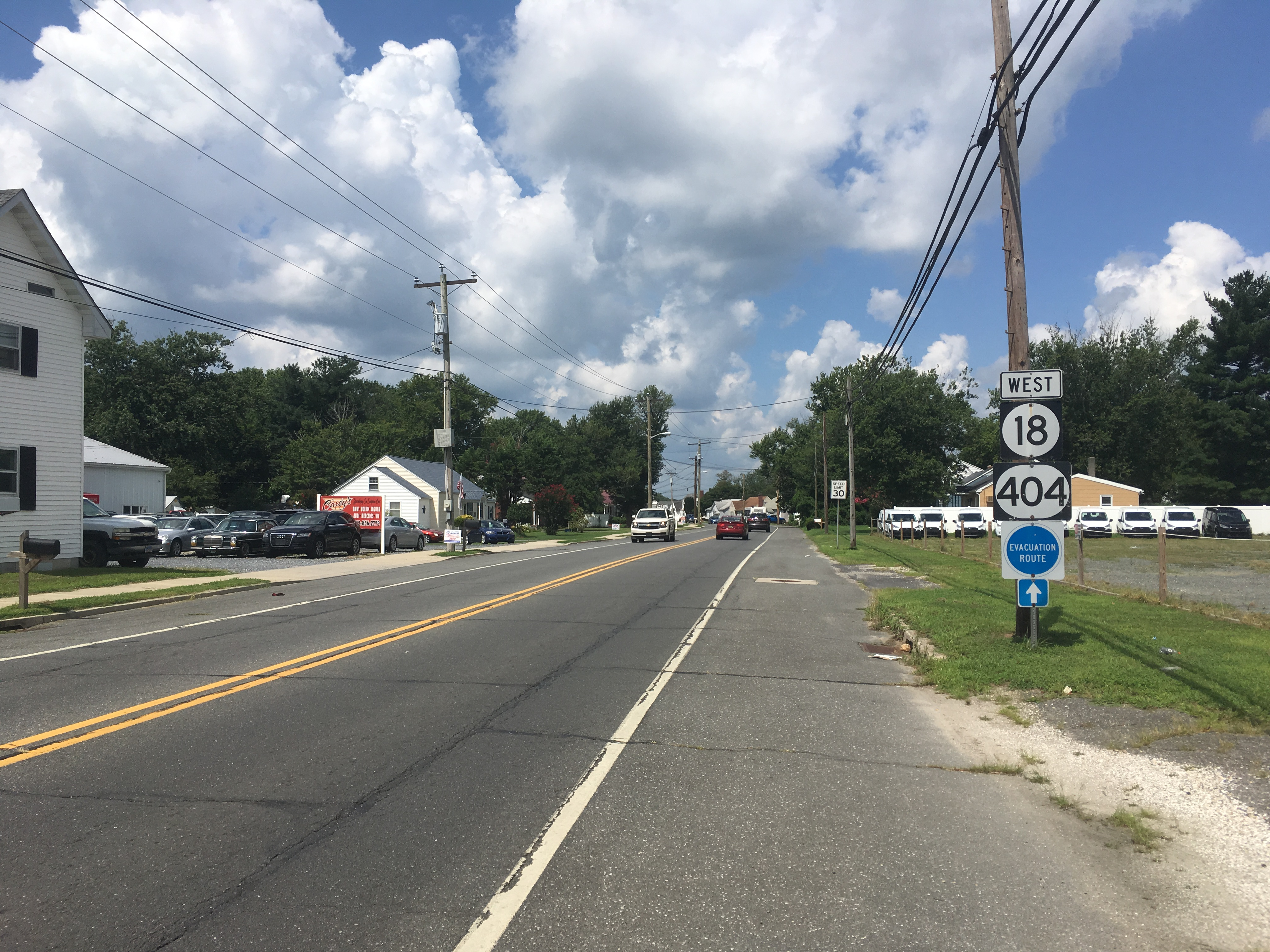 Westbound Delaware Route 18/Delaware Route 404 (Bridgeville Road) past the intersection with North Bedford Street in Georgetown, Delaware